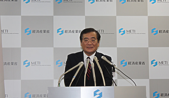 Yoshio Hachiro, Minister of Economy, Trade and Industry, attended the press conference at the Ministry of Economy, Trade and Industry in Chiyoda Ward, Tōkyō Metropolis on September 2, 2011. (For terms of use, see 利用規約（METI/経済産業省）.)